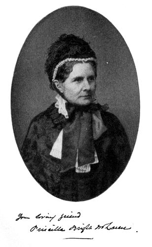 Image of Priscilla Bright McLaren